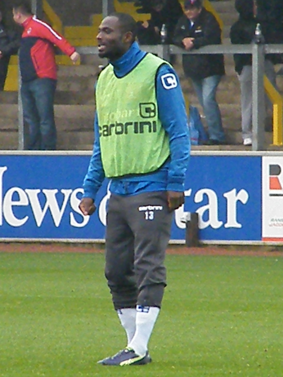 Carlisle V Brentford 8th October 2011